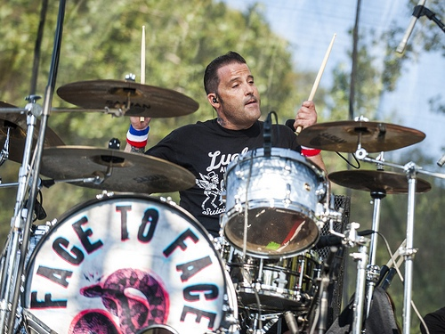 Danny Thompson performing at the KROQ Weenie Roast Verizon Wireless Amphitheater Irvine, CA 2011